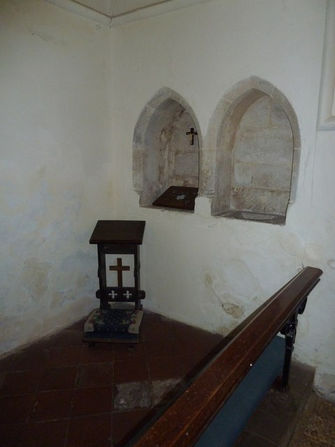 St. Wilfrid, Church Norton, Selsey, West Sussex, England